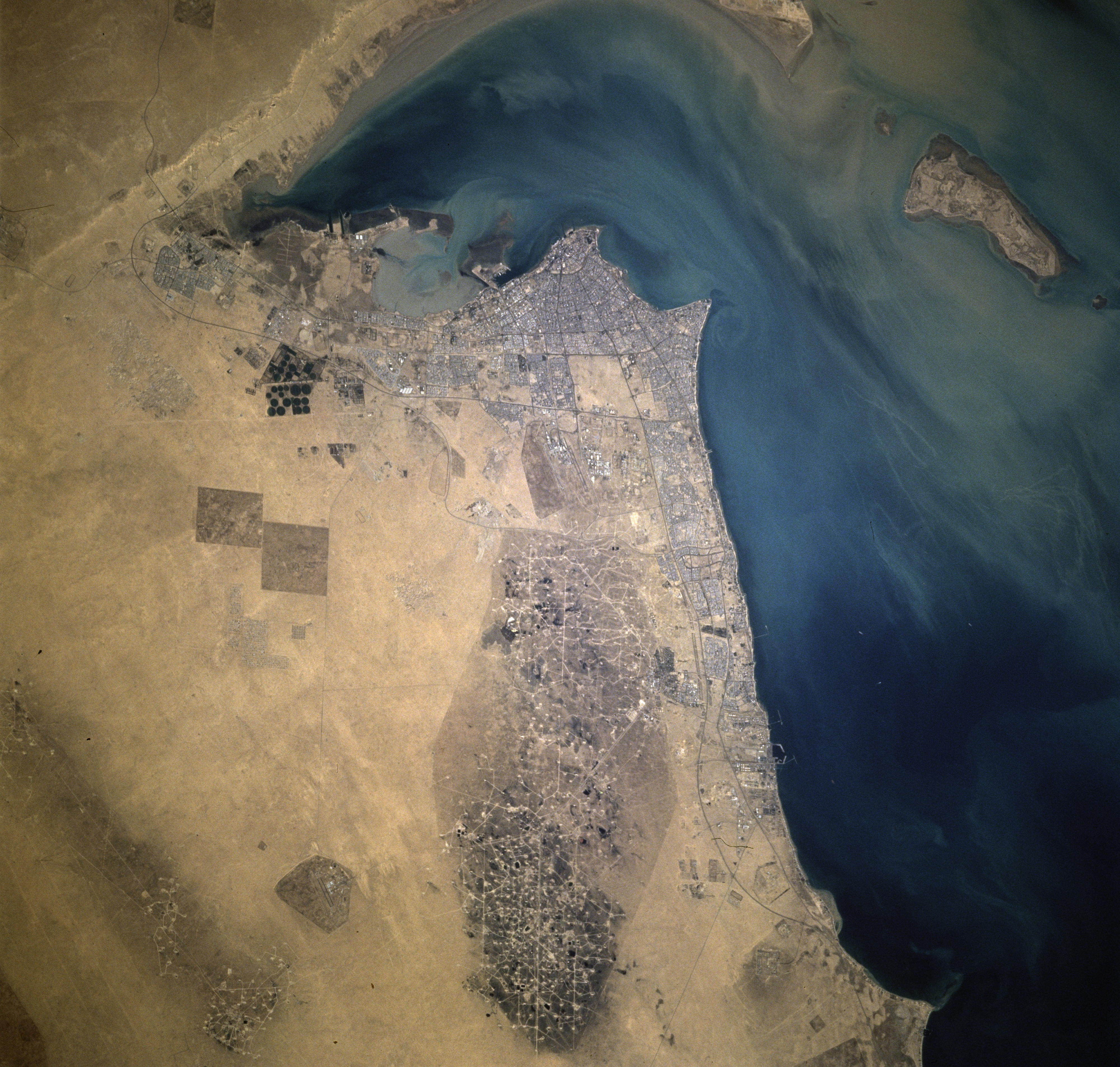 Kuwait City, Al Burqan Oil Field, Kuwait - November 1996 image description from [1]: STS080-733-021 - "The Al Burqan Oil Field, the largest oil and gas field in the world, can be seen in this north-looking view. The oil-free desert sands are visible surrounding the large oil field complex. This was the site in early 1991 of over 530 oil well fires started by the invading Iraqi troops and engineers as part of their country’s “scorched-earth policy.” The oil well fires were distinguished in November of 1991. Five years later, pools or lakes of oil are visible throughout the oil field. Many of the wells have been put back into service. The country of Kuwait possesses about one-fifth of the world’s oil reserves. To the north of the Al Burqan Oil Field, Kuwait City is discernible. New pivot-irrigation fields (dark circular features) developed since the end of the Gulf War are visible to the west (left) of the city. Oil refineries and large tanker facilities are discernible along the Persian Gulf coast." Photo center Latitude: 29.5, Longitude: 48.0